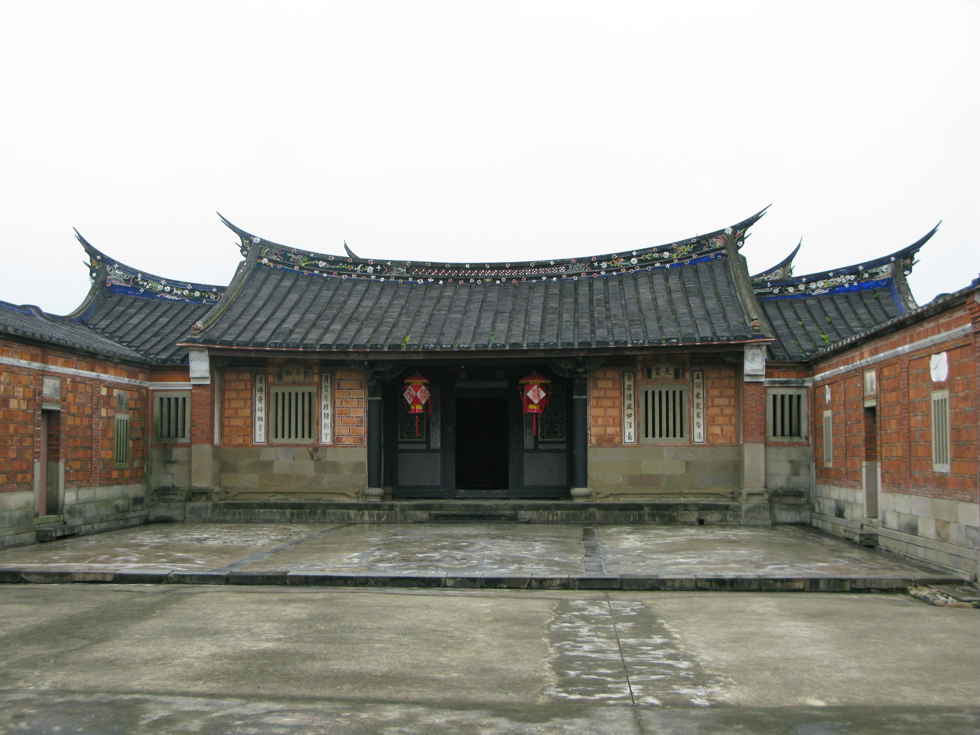 Li teng-fang Historical Home ,TAIWAN中文（台灣）: 李騰芳古宅。